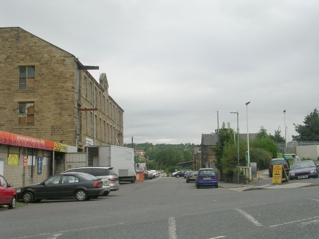 Cardwell Terrace - Savile Road